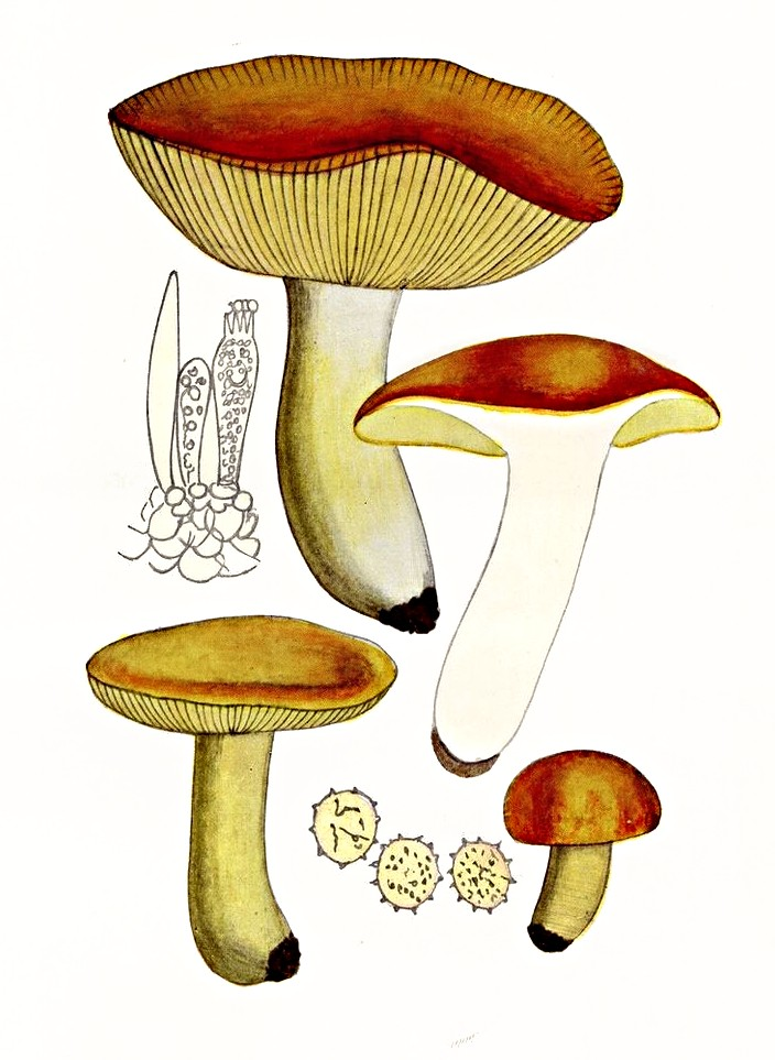 Copyright © 2001-2012 Gruppo Micologico «G. Bresadola» online (This site is hosted by the server of the Science Museum.)